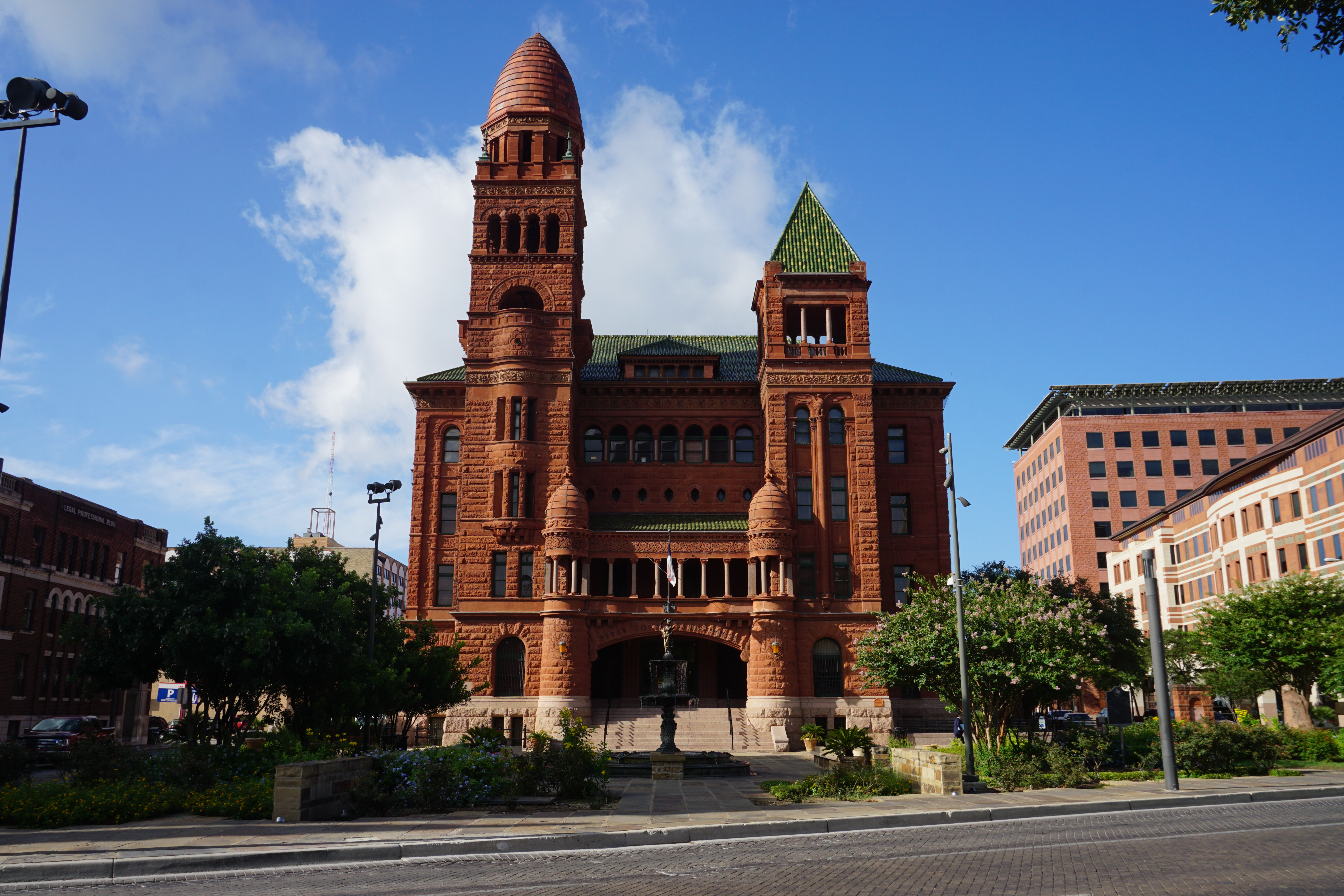 The Bexar County Courthouse in San Antonio, Texas (United States).